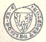 Coats of Arms Mathieu de Valencourt de Mons, Baron of Veligosti, Principality of Achaea